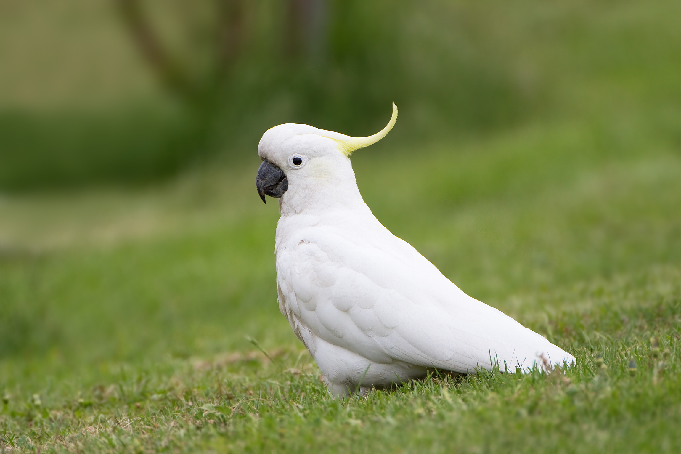 Sulphur-crested Cockatoo (Cacatua galerita), Risdon Brook Park, Tasmania, Australia